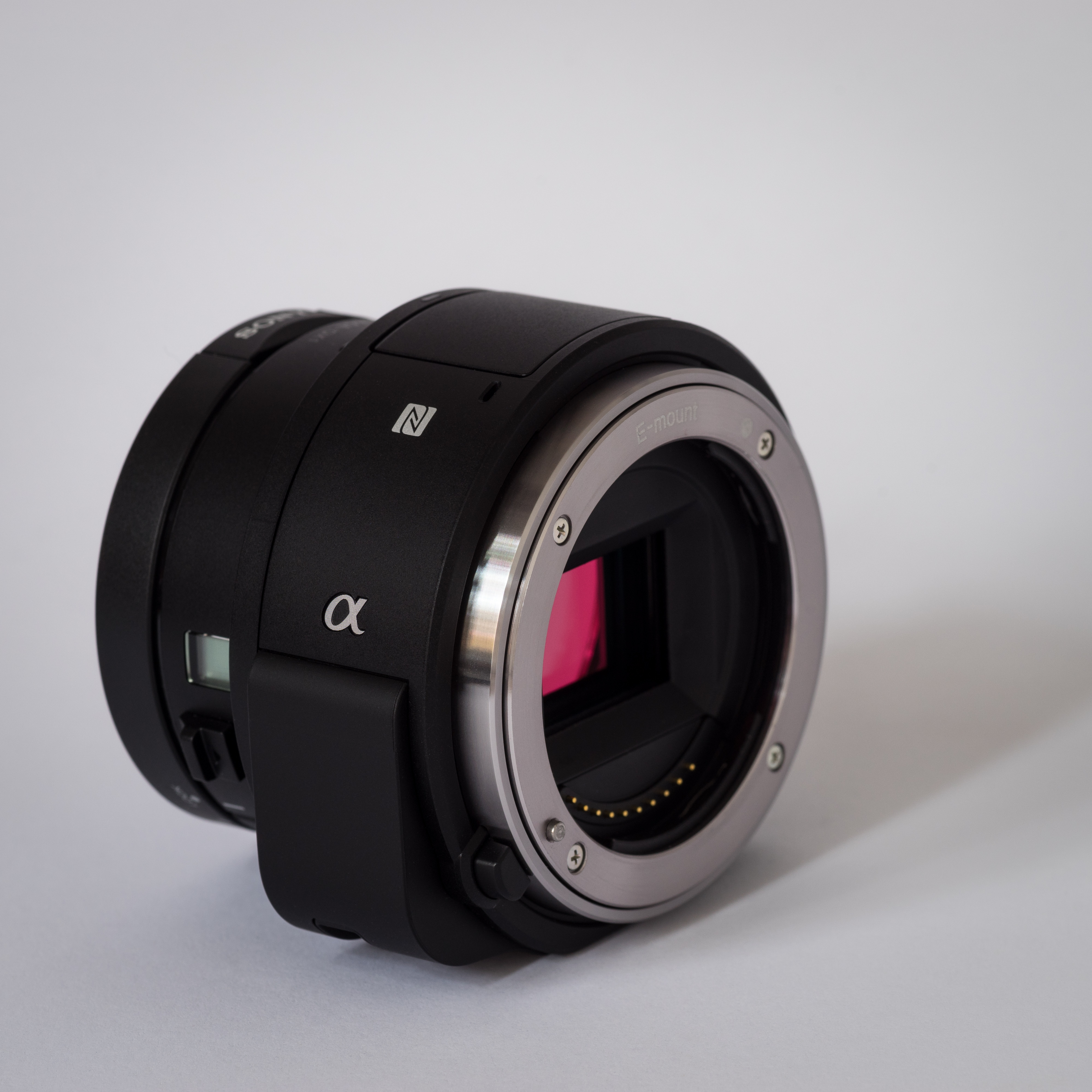 Sony Alpha ILCE-QX1 APS-C-frame camera (mirrorless interchangeable-lens camera).